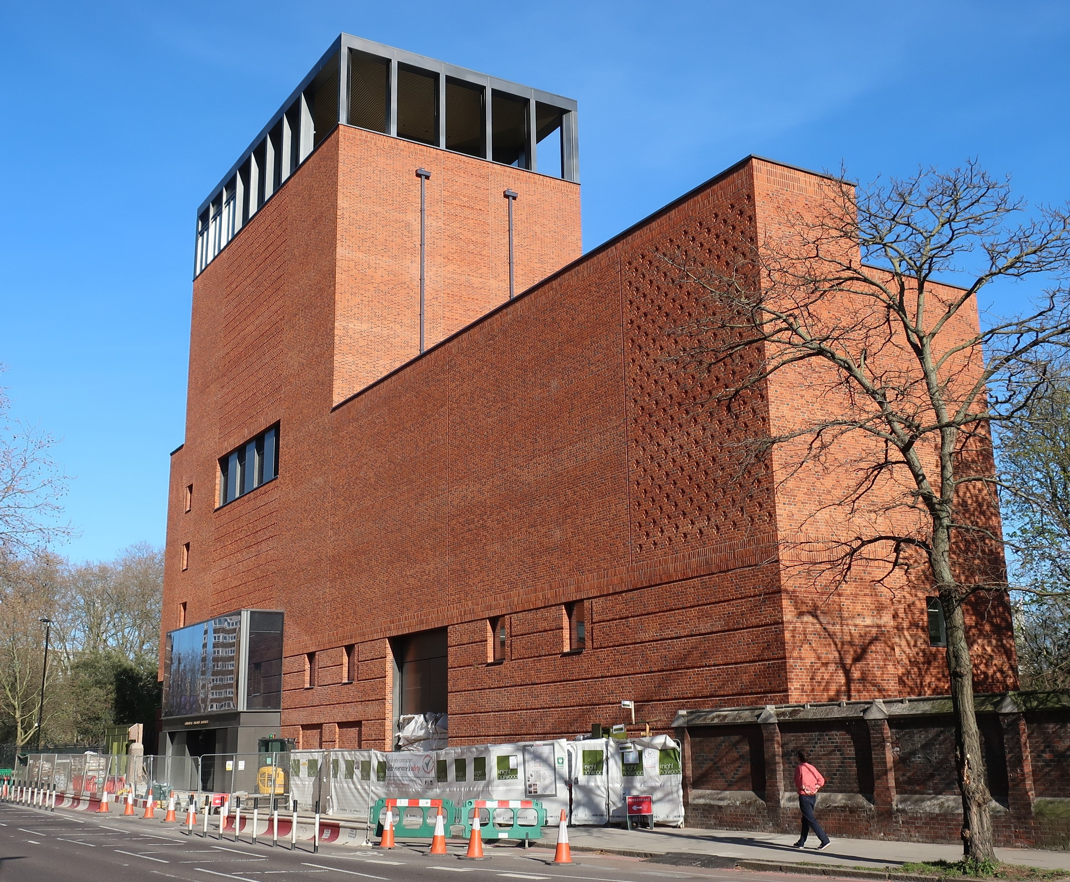 Lambeth Palace Library building, Lambeth Palace Road, London SE1, viewed from the south. Photographed in April 2020: the building is approaching completion, but hoardings and other evidence of construction work are still visible.